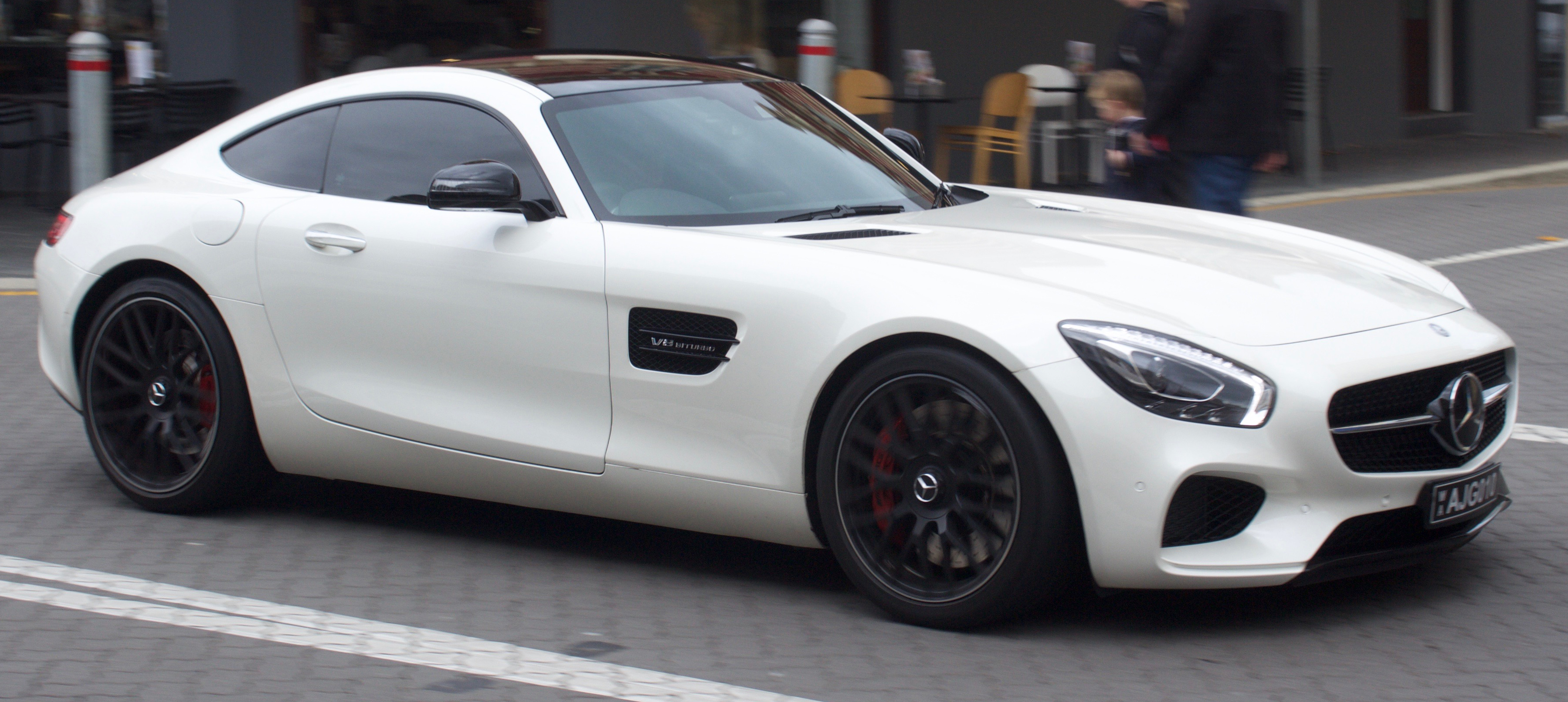 2015-2017 Mercedes-AMG GT (C 190) S coupe. Photographed in Fremantle, Western Australia, Australia.